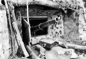 Japanese Fortification at Okinawa - 12-cm British gun in concrete emplacement.